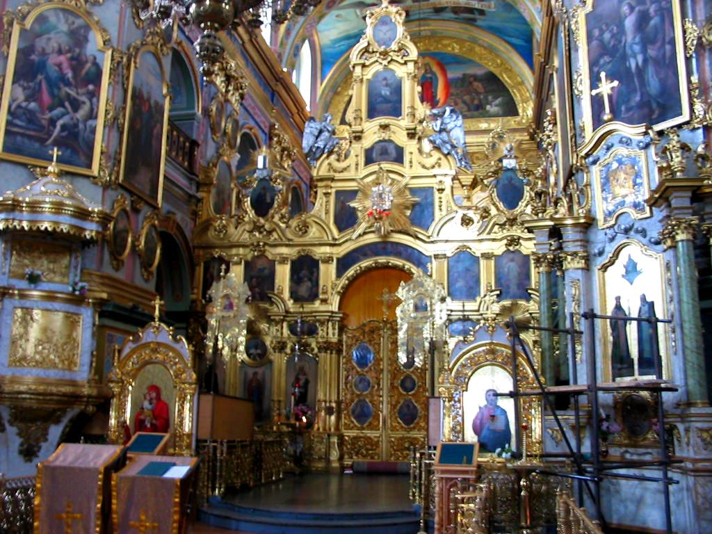 Pochayiv monastery, Ternopil oblast, western Ukraine.